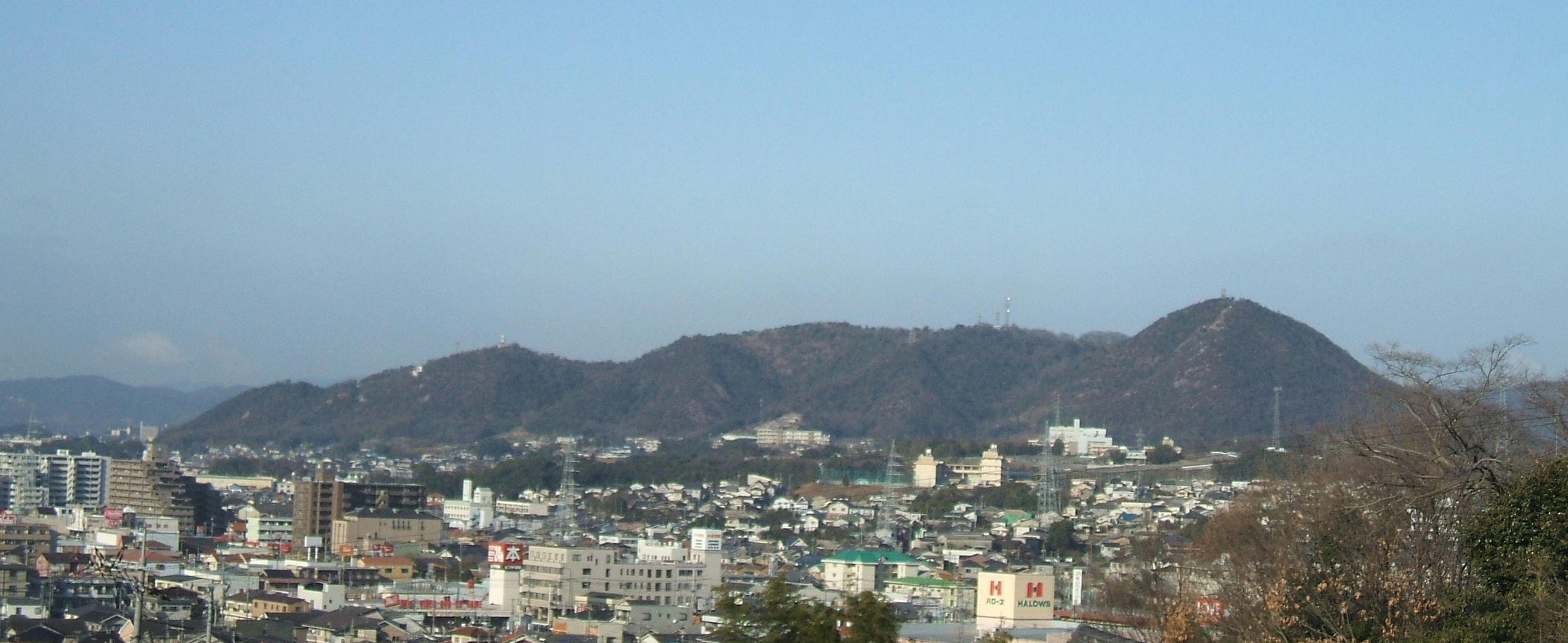 Mt' Zao